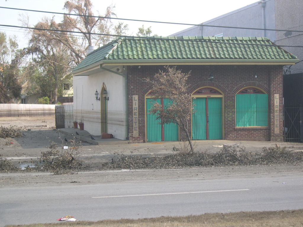 Mid-City New Orleans after the Hurricane Katrina levee failure disaster: Flooded out "Juan's Flying Burrito" restaurant on Carrollton Avenue/